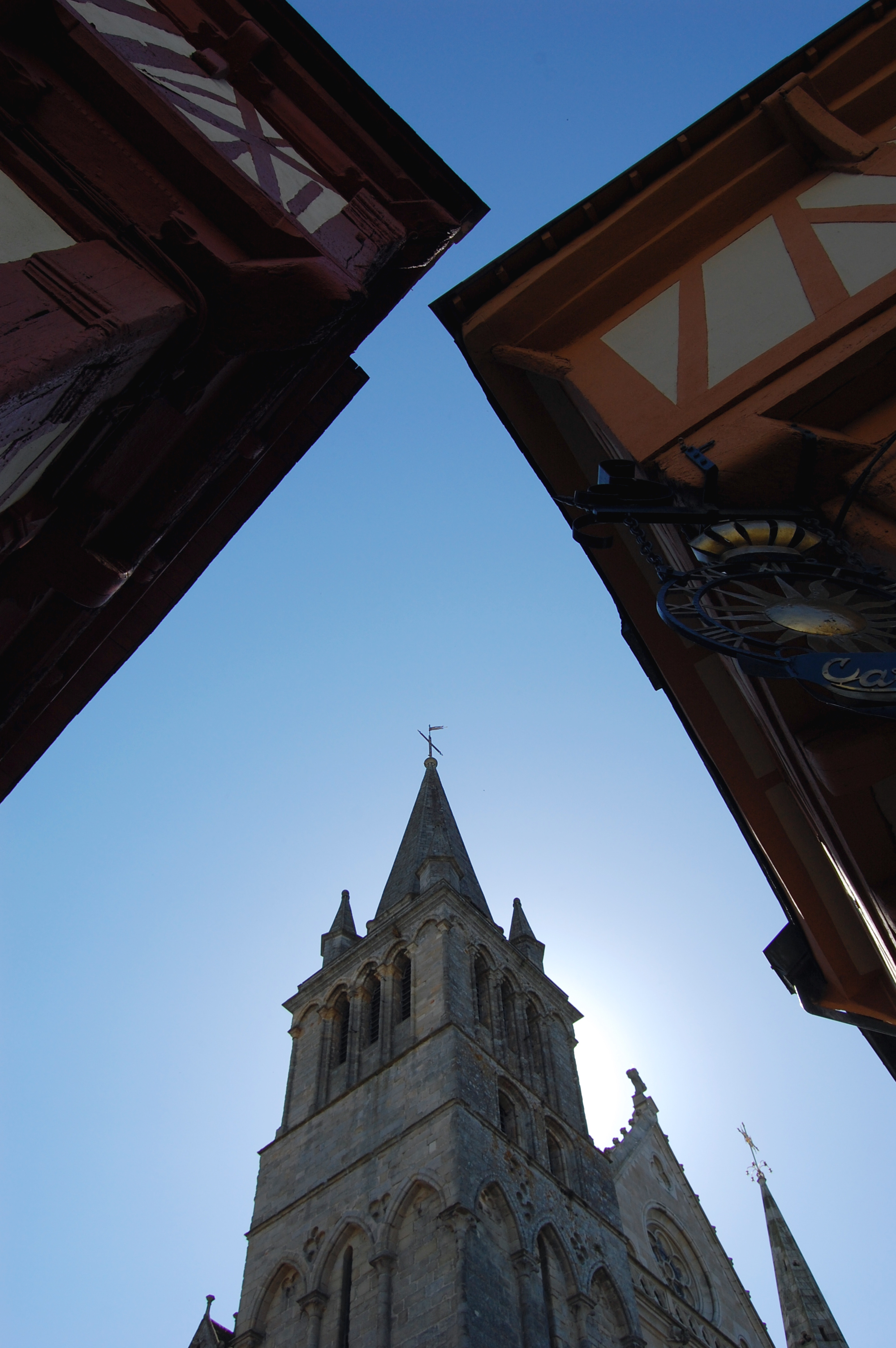 Cathedral and old buildings in Vannes